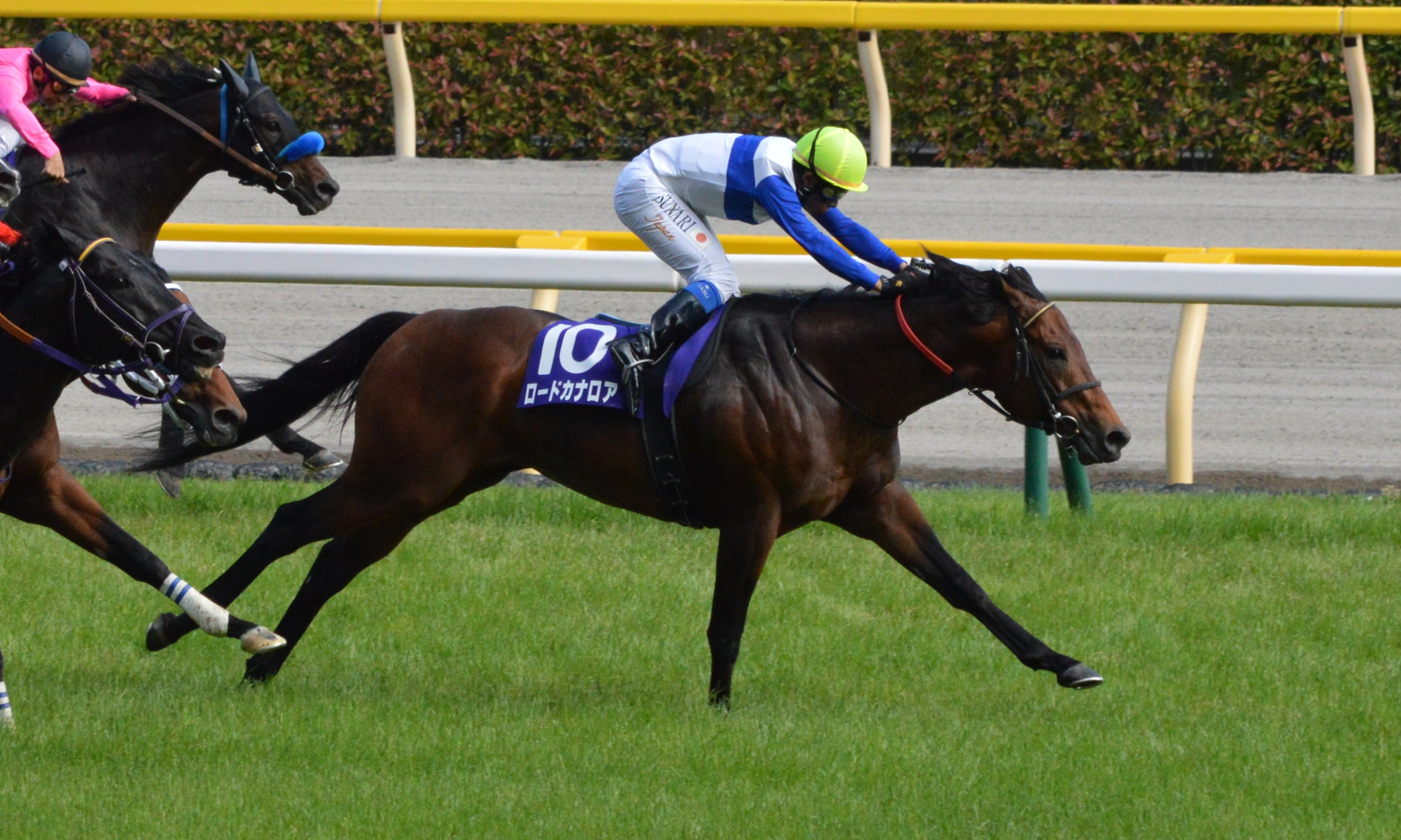 Japanese race horse Lord Kanaloa at Tokyo racecourse. Tokyo (JPN) 02 Jun 2013 Yasuda Kinen (Grade 1) (3yo+) (Turf) 1m Firm RankHorse NameOddsAgeWgtTrainerJockey1stLord Kanaloa (JPN)3/1FH59-2Takayuki YasudaYasunari Iwata2ndShonan Mighty (JPN)47/10H59-2Tomoyuki UmedaSuguru Hamanaka3rdDanon Shark (JPN)36/1H59-2Ryuji OkuboCristian Demuro4th - 18th/omission